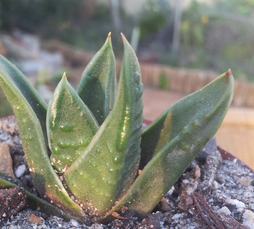 Young haworthia scabra in cultivation. Morrisiae-smitii form